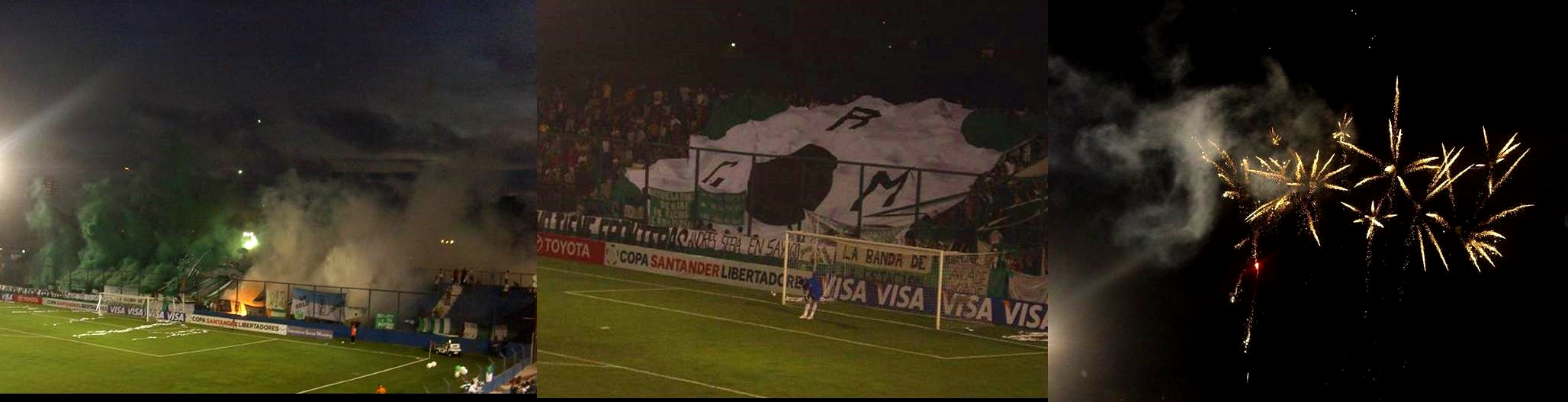 The fans of colorful Racing the Central Park, fans of other teams in the capital supported with banners and T-shirts. That night Racing was Uruguay...